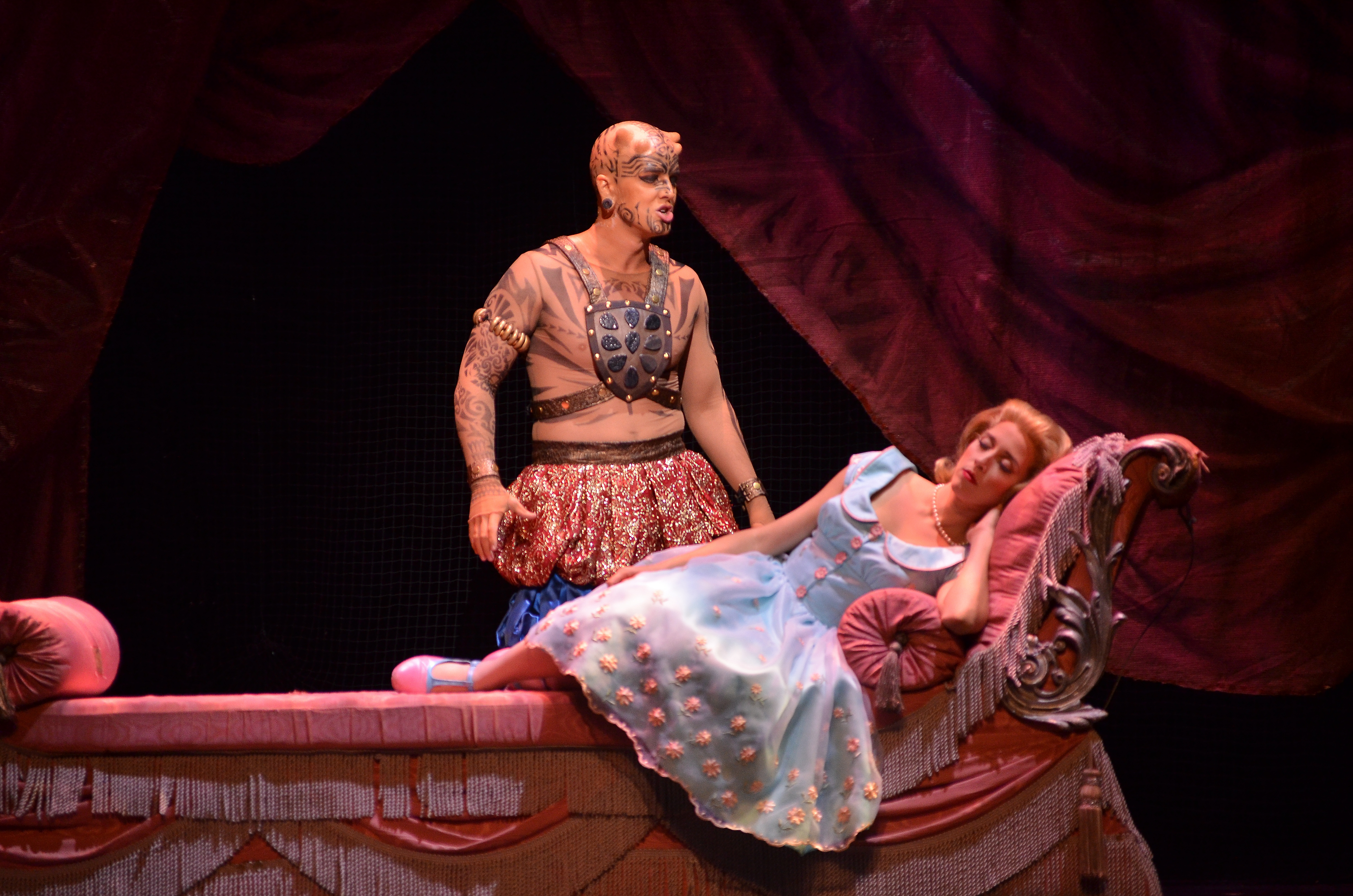 Image_1083 Matthew Maness, Lisette Oropesa - FGO Magic Flute 2013 - Photo by Gaston de Cardenas